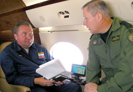 Canadian Forces Col. Todd Balfe, deputy commander Alaska NORAD Region, and Russian Air Force Col. Alexander Vasilyev on board Fencing 1220 Aug. 8, discussing the handover of the track of interest from the NORAD E3 Sentry, an airborne warning and control platform, to its Russian counterpart, the A50 Mainstay somewhere over the north Pacific Ocean. Vigilant Eagle is a cooperative exercise involving the North American Aerospace Defense Command and the Russian Air Force. The exercise scenario creates a situation that requires both the Russian Air Force and NORAD to launch or divert fighter aircraft to investigate and follow a "hijacked" airliner. The exercise focuses on shadowing and the cooperative hand-off of the monitored aircraft between fighters of the participating nations.